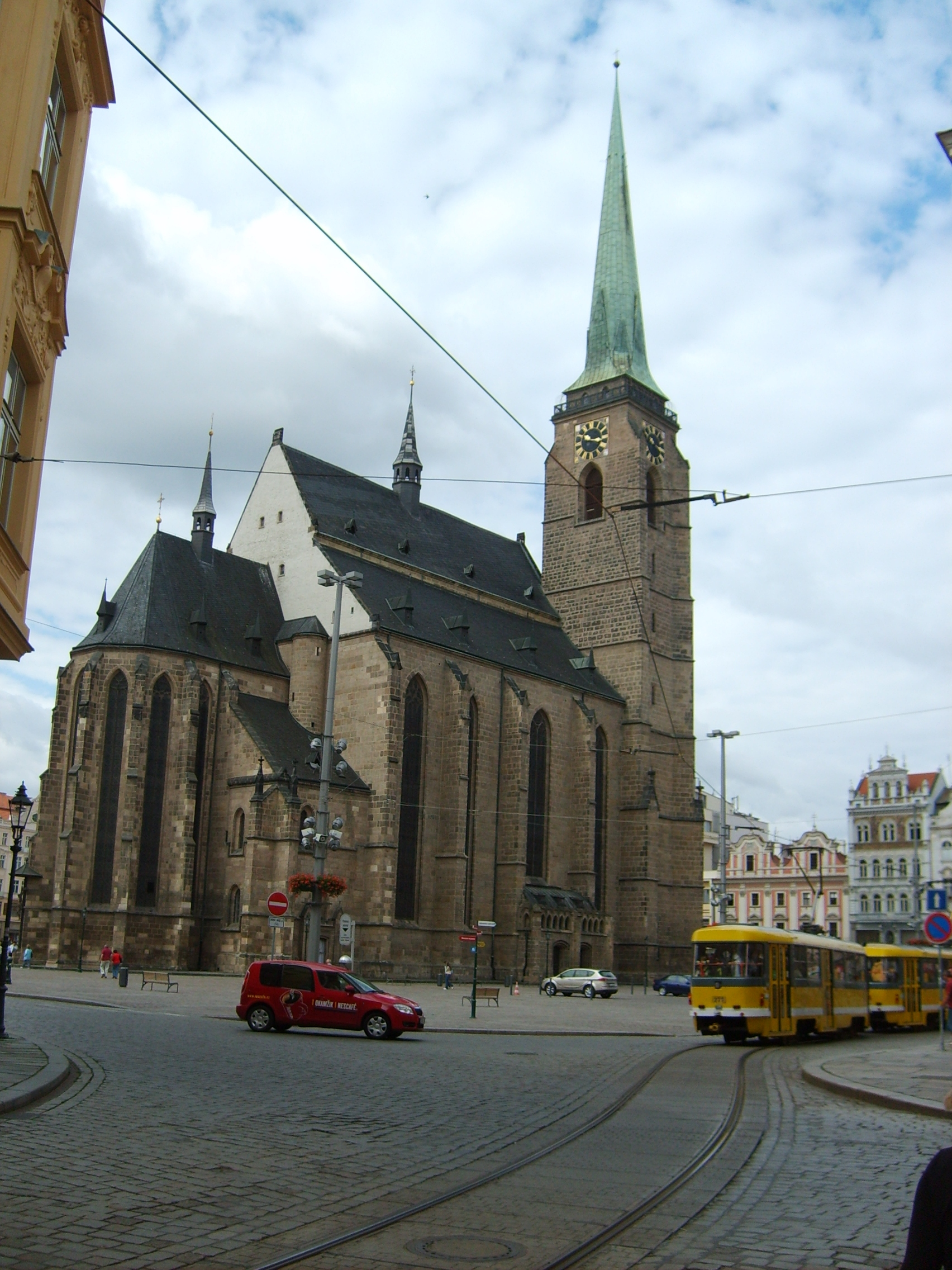 St.Bart.Cathedral on náměstí Republiky in Plzeň, view from the corner of Pražská street.